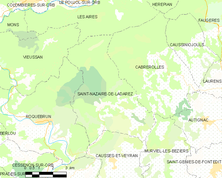 Map commune FR insee code 34279.png - Saint-Nazaire-de-Ladarez